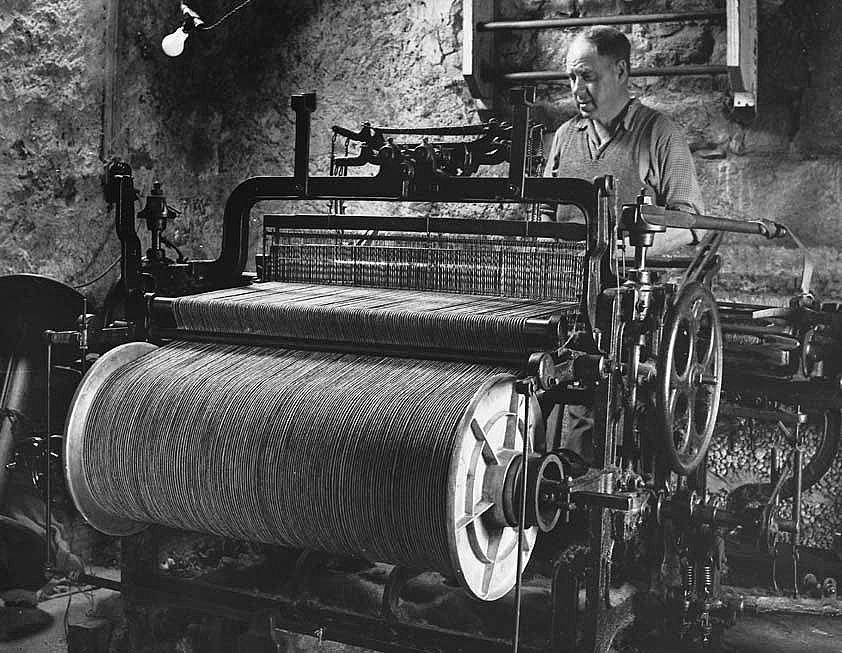 Harris Tweed weaver at his Hattersley loom.